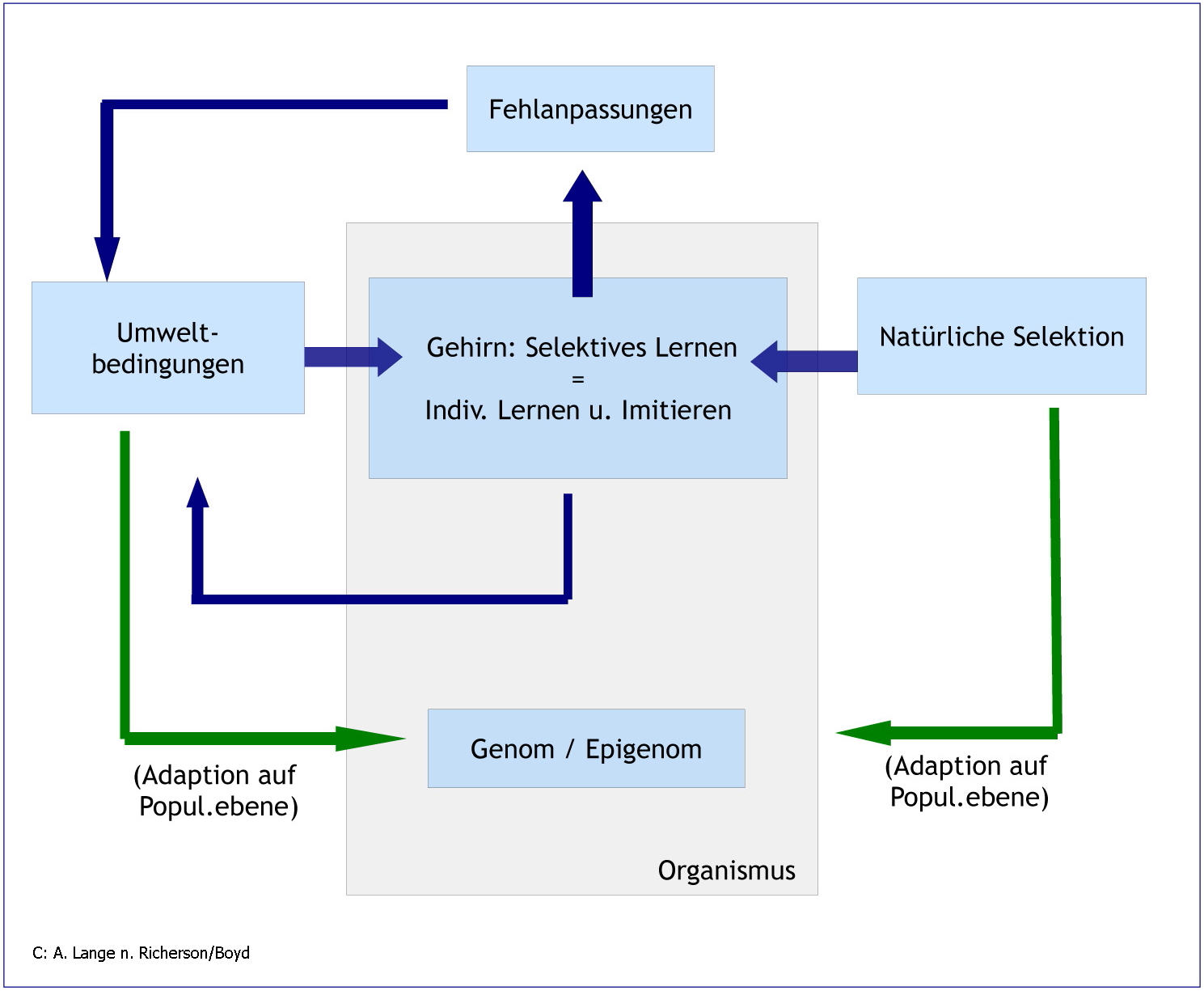 Interactive System of cultural evolution after Richerson/Boyd.